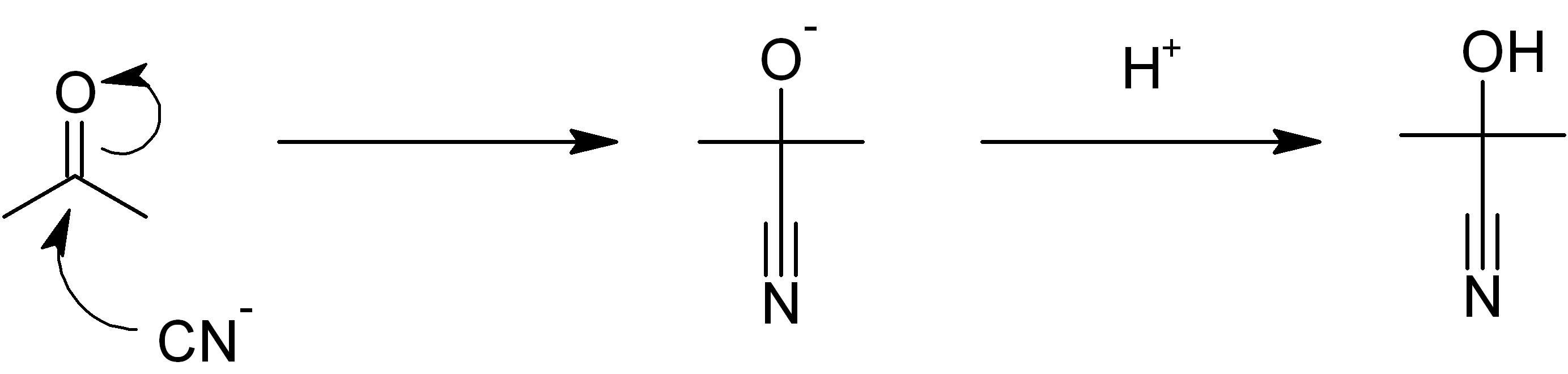 Synthesis of acetone cyanohydrin from acetone and sodium cyanide. R. F. B. Cox and R. T. Stormont. "Acetone Cyanohydrin". Org. Synth.; Coll. Vol. 2: 7.